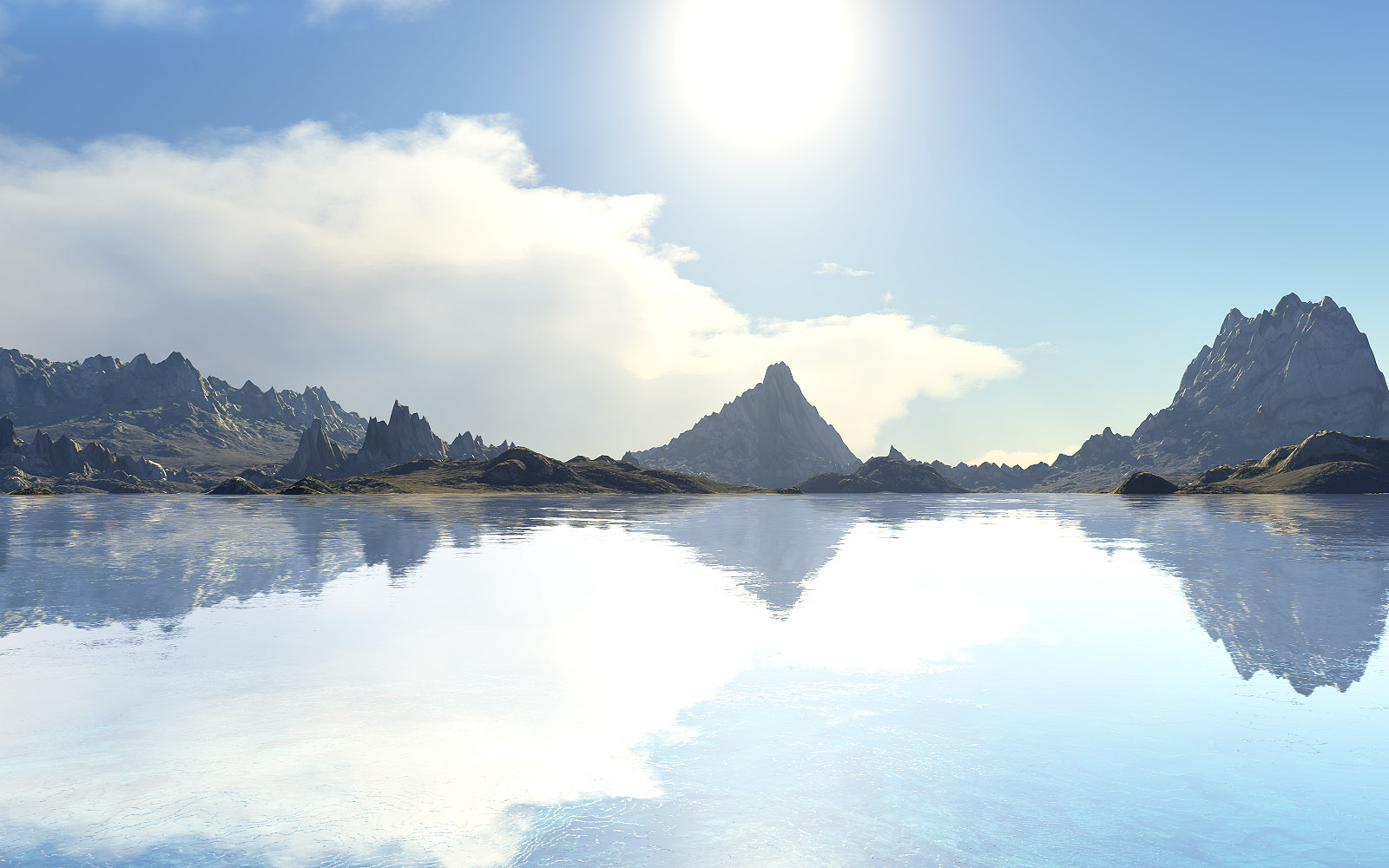 One of mein own renders, made in Terragen 0.9, for my user page. Feel free to use it, so long as you link back to me or give me credit. More can be found at my dA page, etc.